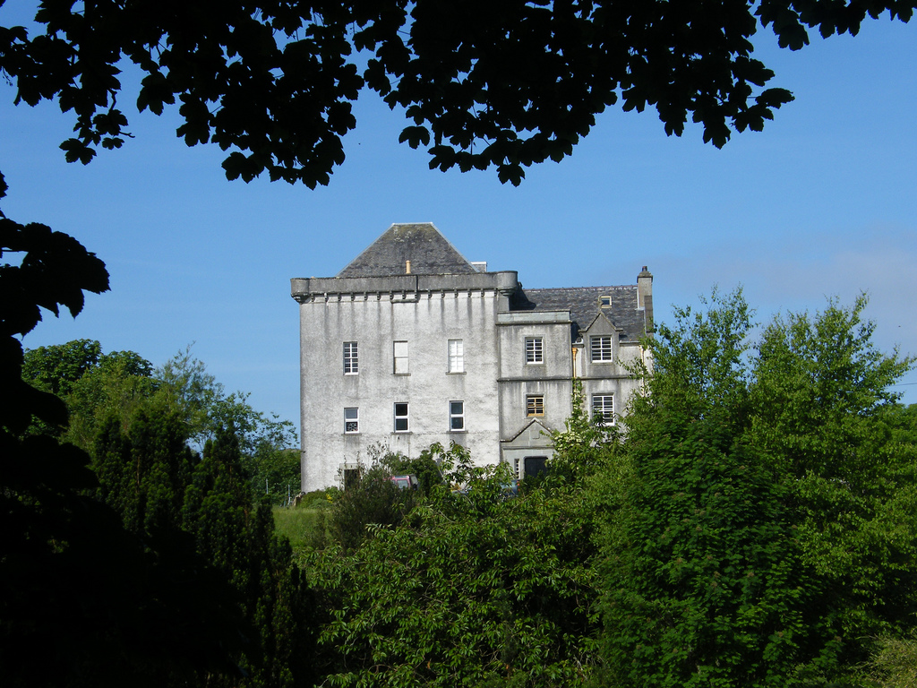 Craignish Castle